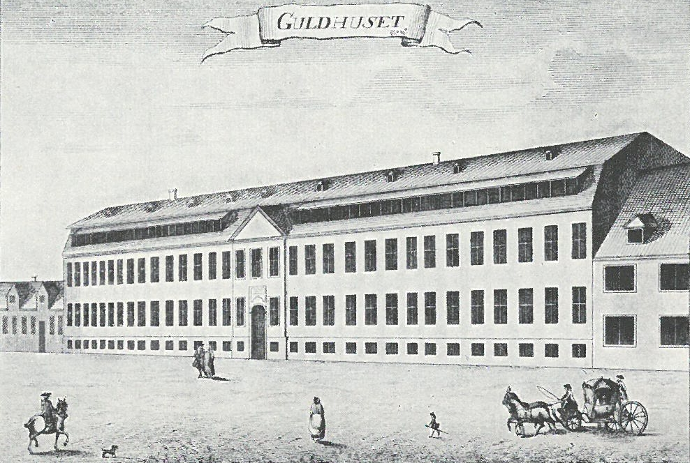 Guldhuset in Rigensgade in Copenhagen, Denmark